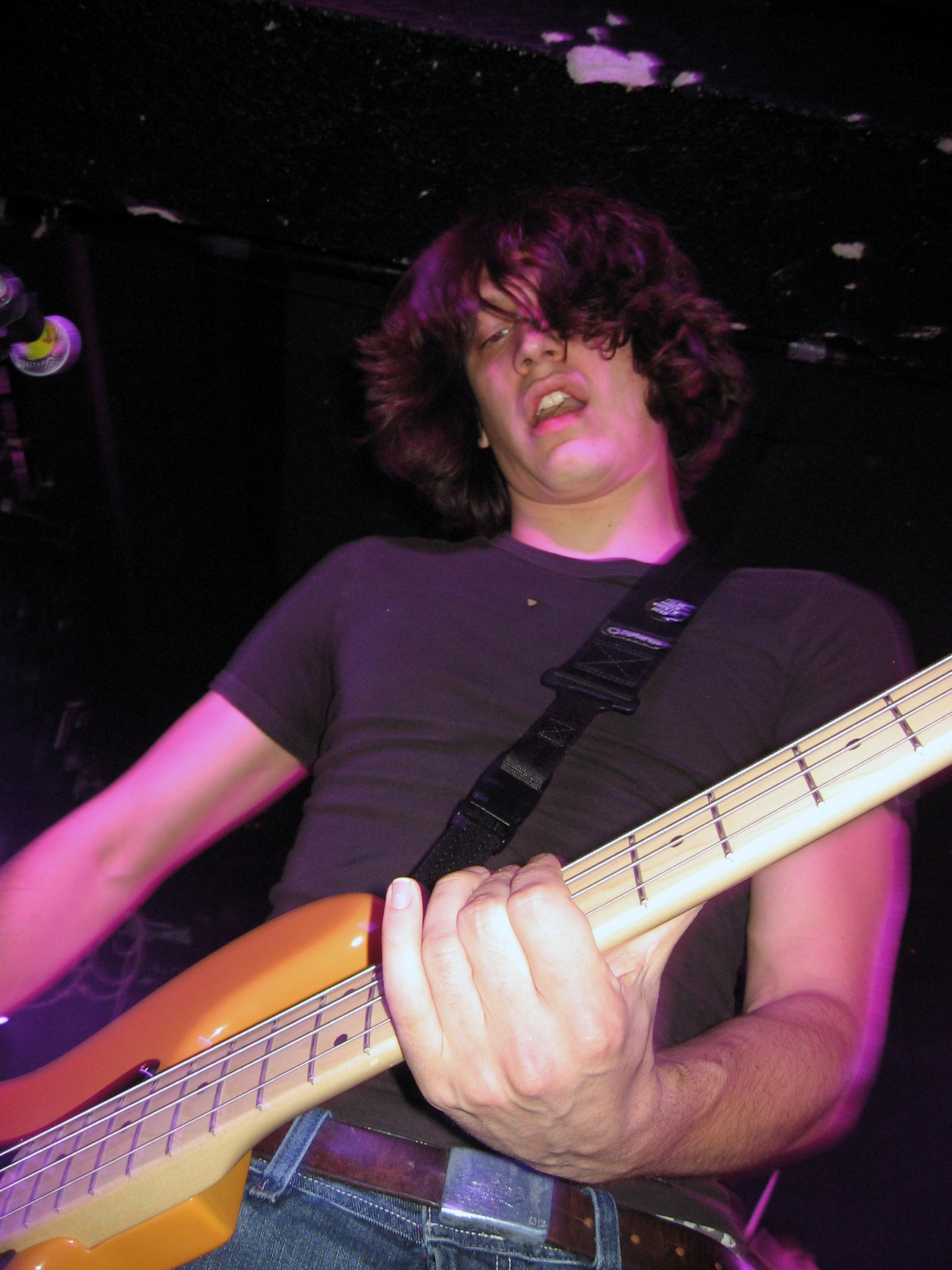 Anthony DiIonno of Armor for Sleep, taken by Jubella 21:36, 30 April 2006 (UTC)